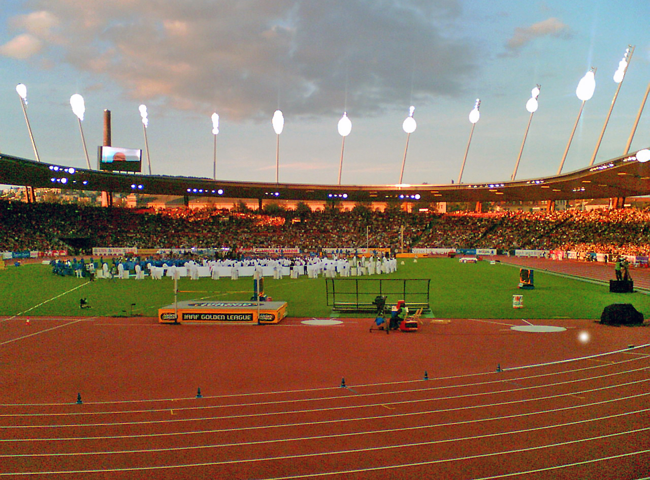 Annual athletics meeting Weltklasse Zürich in the new stadium Letzigrund during the opening ceremony